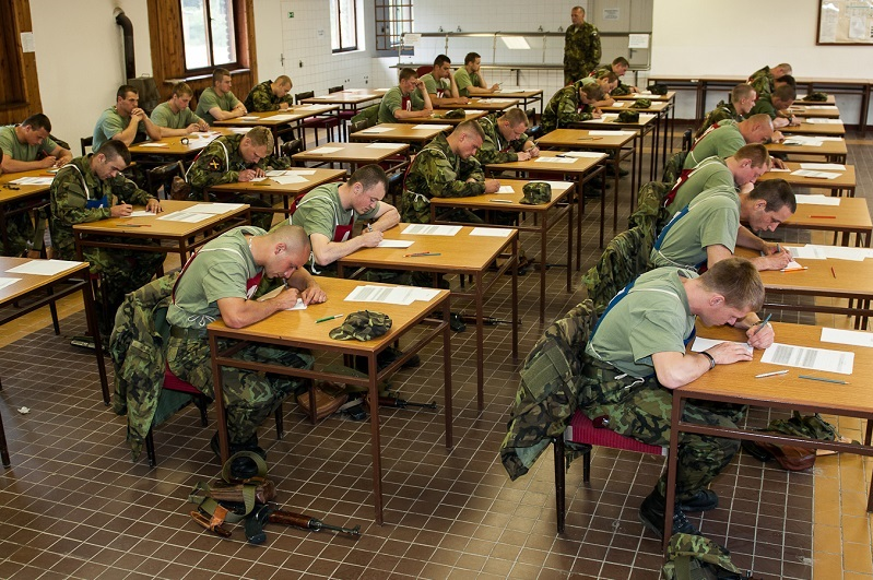 Selection of the 43rd Airborne Battalion (CZE), mental test